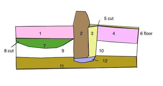 graphic created for article harris matrix